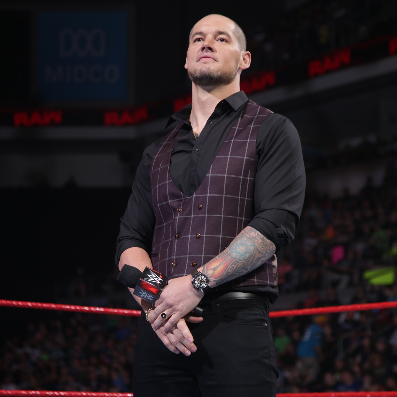 Baron corbin